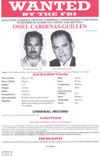 FBI Wanted Poster of Gulf Cartel leader Osiel Cárdenas Guillen.